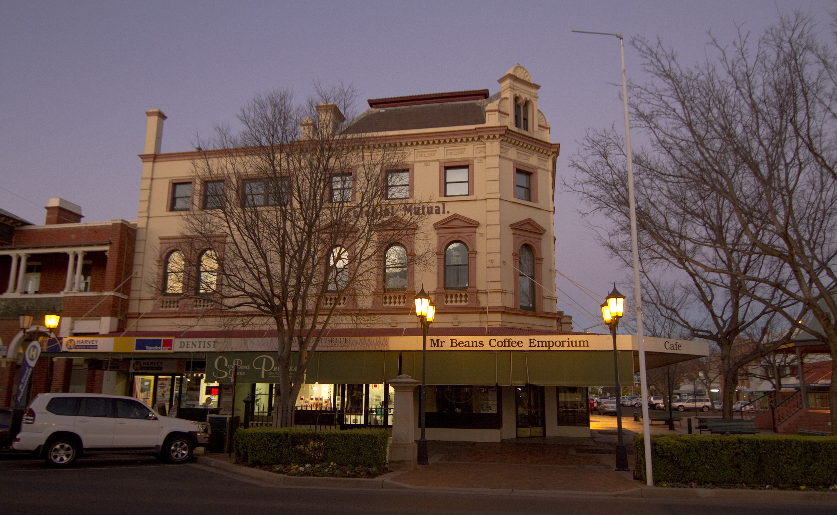 Dubbo NSW 2830, Australia